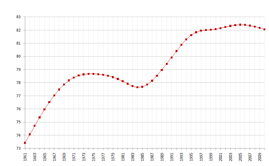 adaptation of File:Germany demography.png without english text